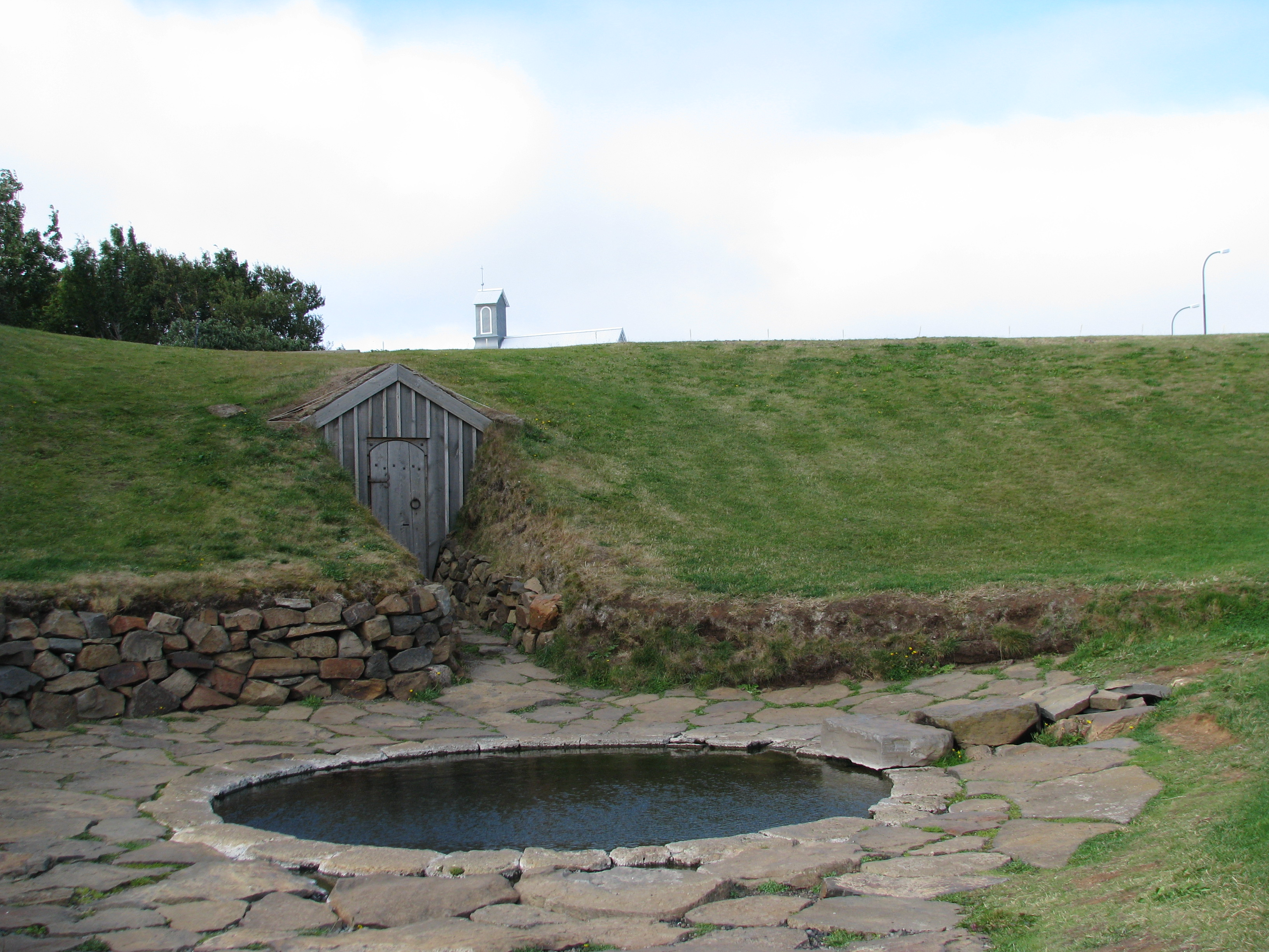 Snorralaug, a warmwater well in Reykholt, a town in Iceland.